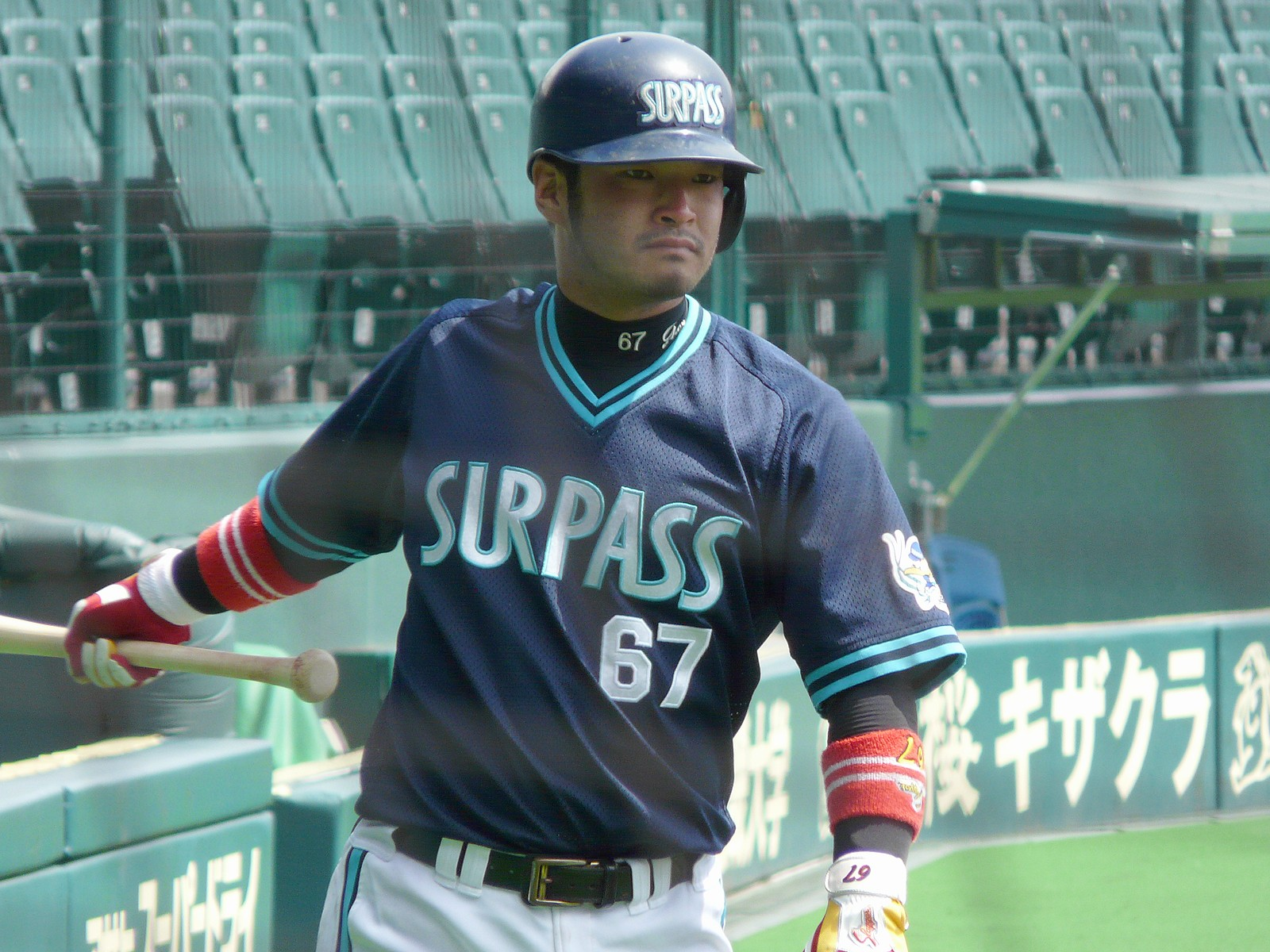 Tetsuya Yokoyama